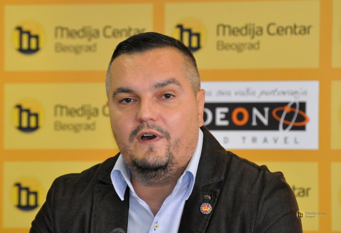 Gojković in 2017